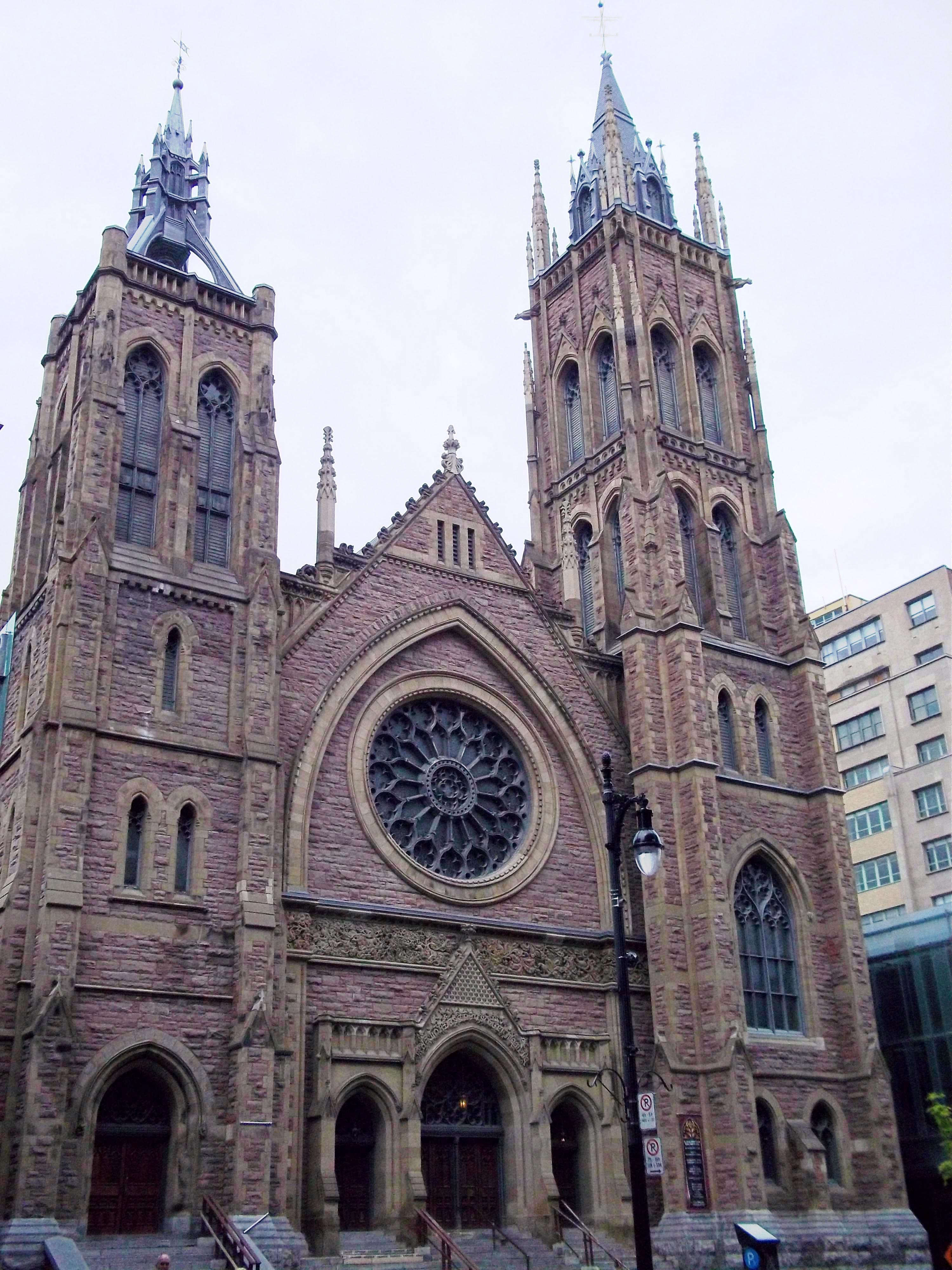 St. James United Church, Montreal